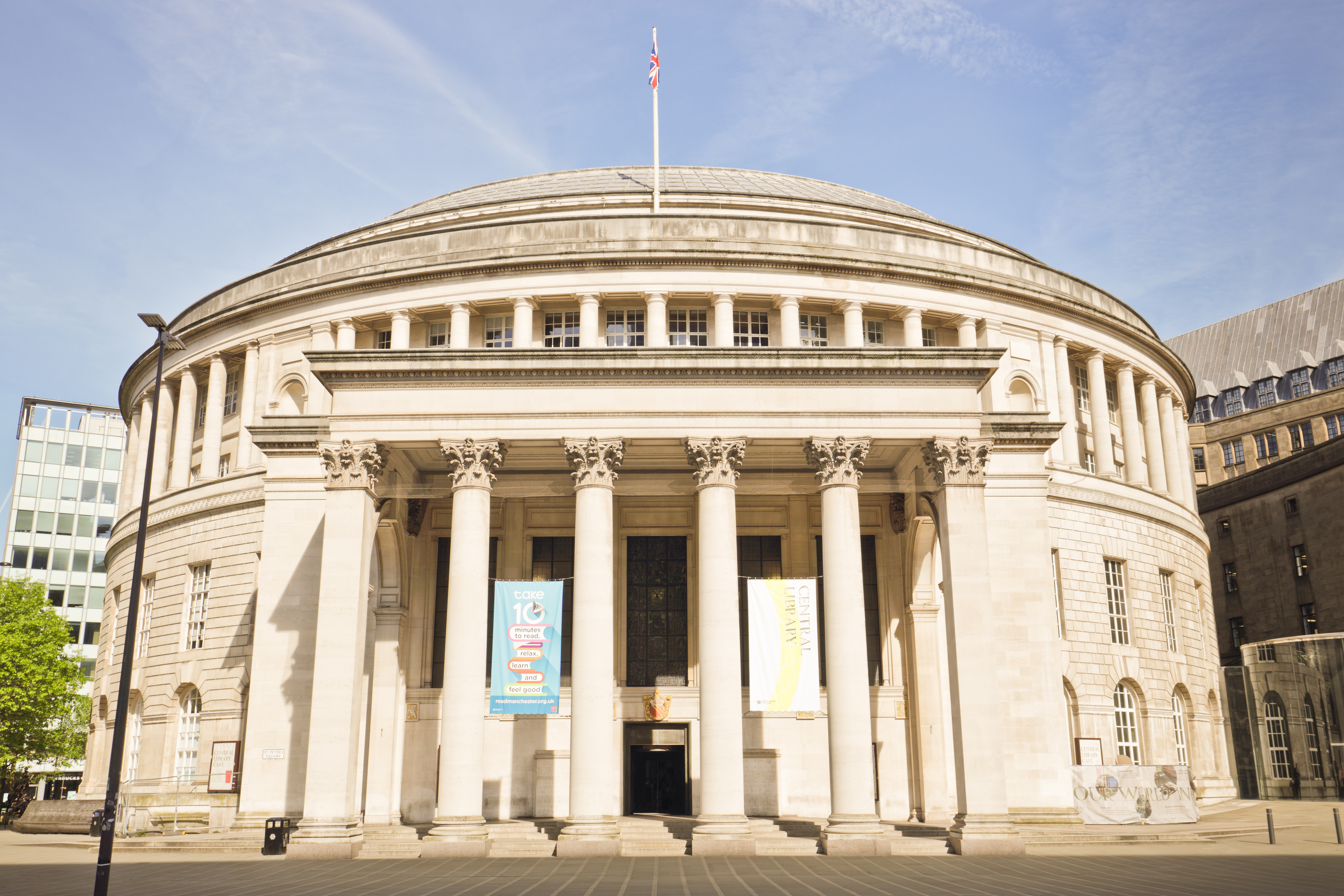 Here is a photograph taken from Manchester Central Library. Located in Manchester, Greater Manchester, England, UK.